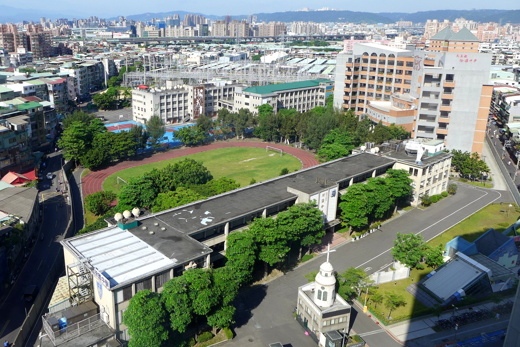 St. Ignatius High School